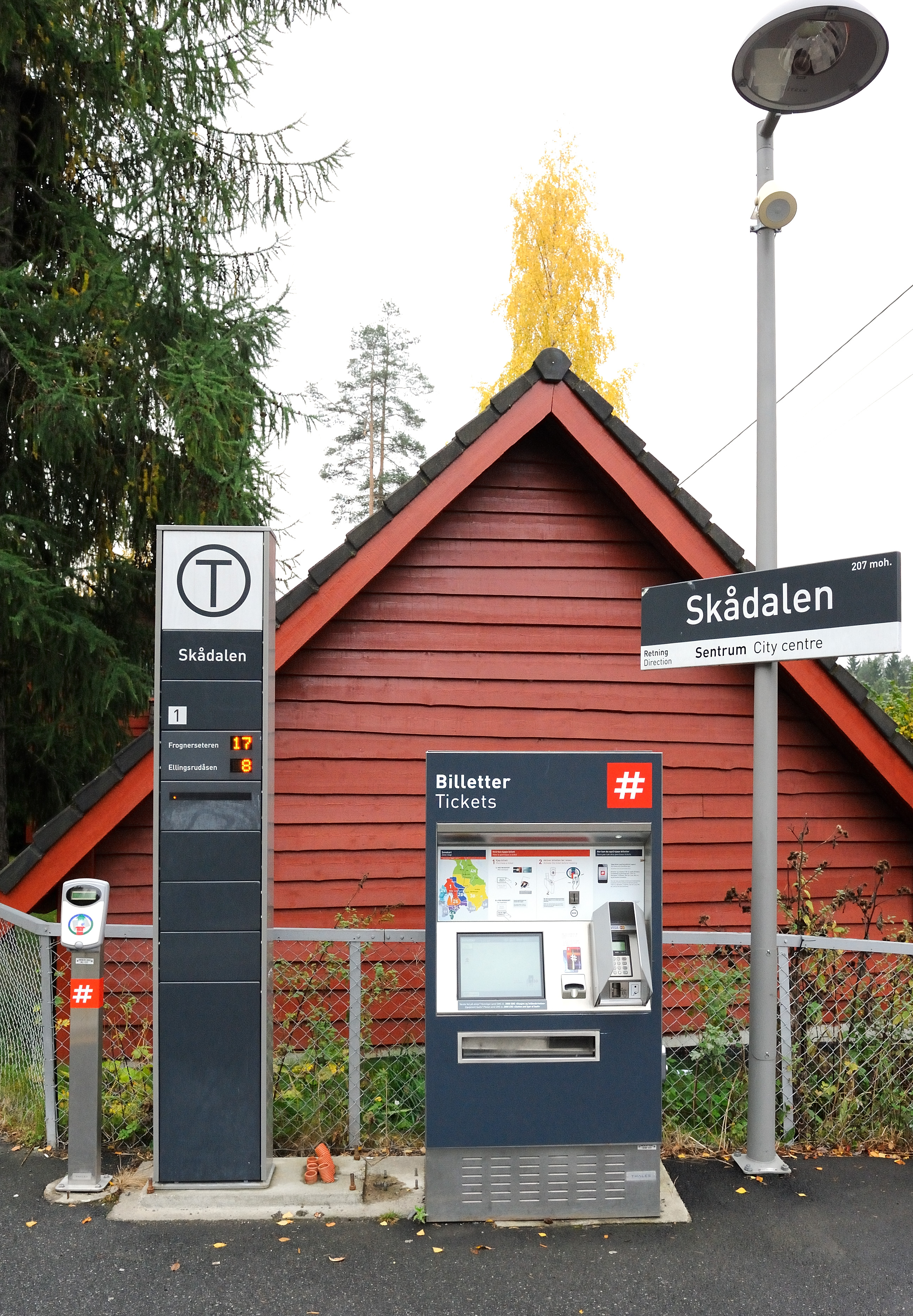 I cooled my heels here for nearly twenty minutes while awaiting a train back into town early on a Sunday morning.